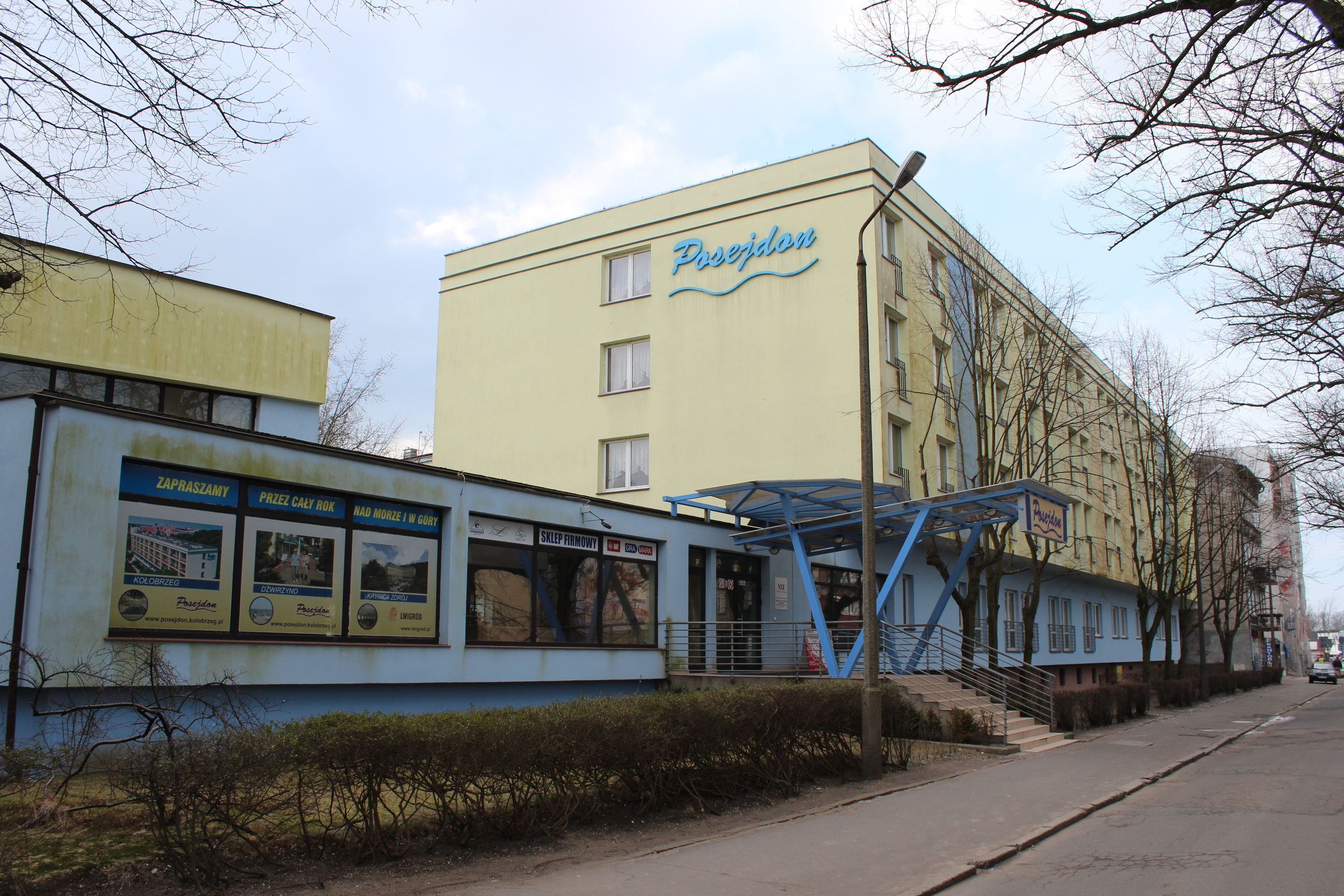 Posejdon Sanatorium in Kołobrzeg